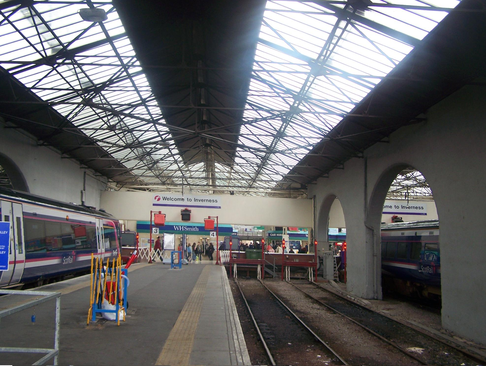 Sight on the inside (tracks and platforms) of city of Inverness railway station in Scotland.